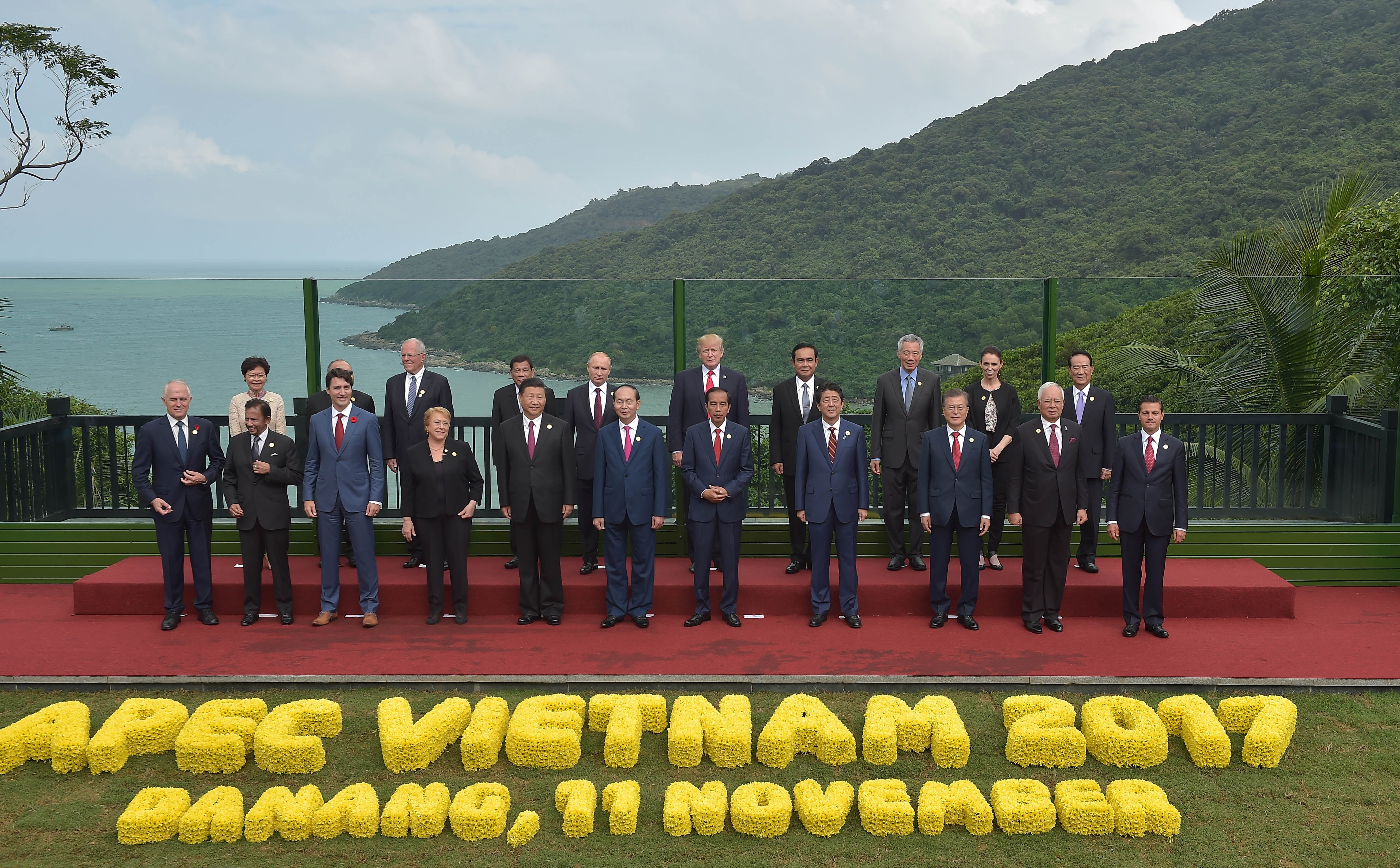 Portrait of the leaders of the member economies of APEC at the APEC Vietnam 2017 Summit.